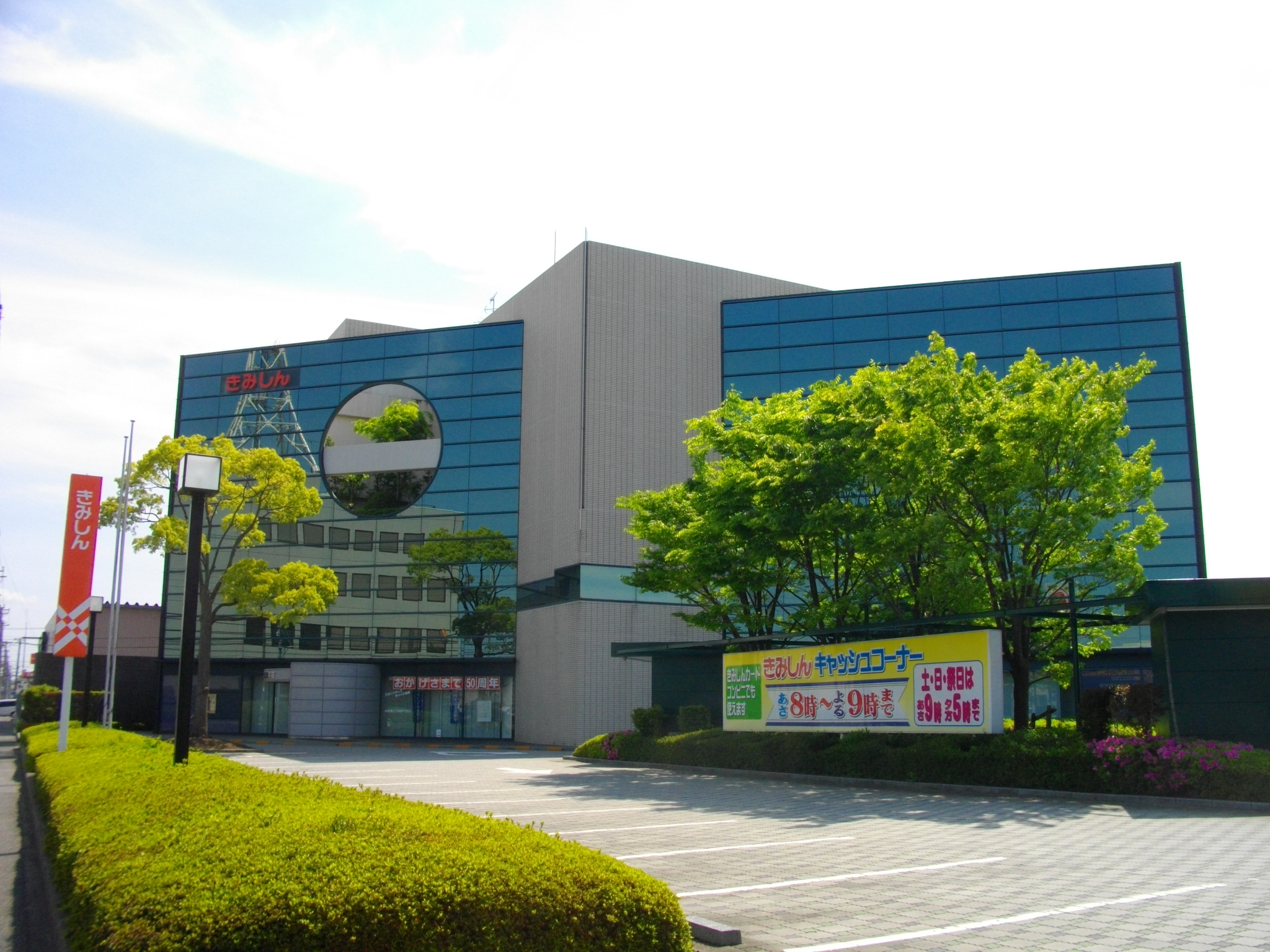 Kimitsu Credit Union Head Office